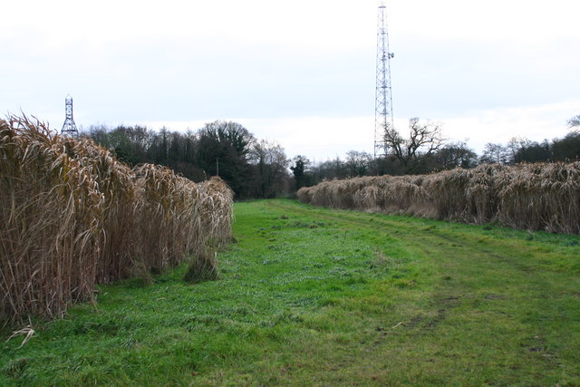 Public Footpath Through Elephant Grass (Miscanthus sp.). This public footpath leads to Highlows lane, Yarnfield. The elephant grass crop is an experimental energy crop being developed by a local company.